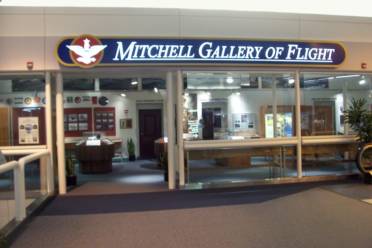 Mitchell Gallery of Flight is an aviation museum located inside General Mitchell International Airport in Milwaukee, Wisconsin.